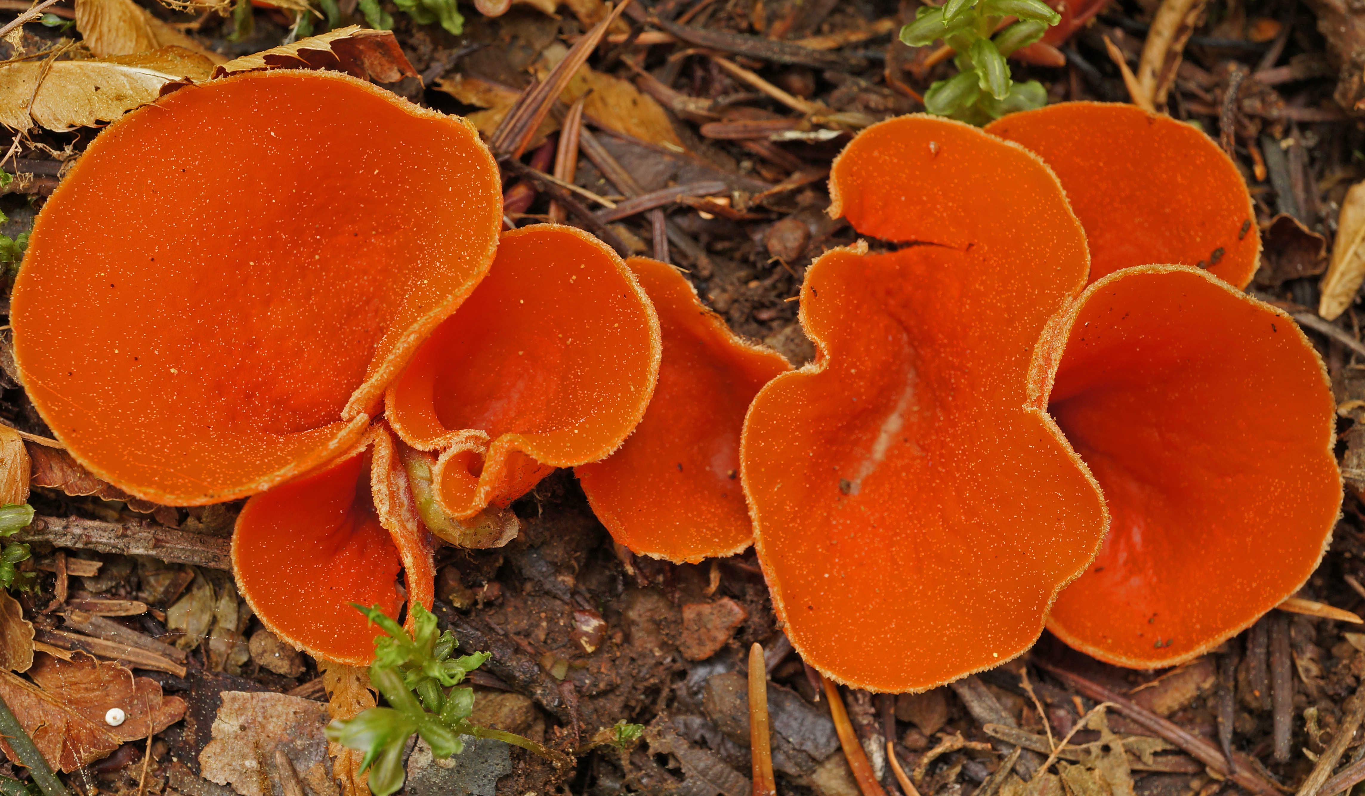 Fruit bodies of the ascomycete fungus Pseudaleuria quinaultiana Lusk. Photographed in Sunset Rest Area, Highway 26, Clatsop Co., Oregon, USA.